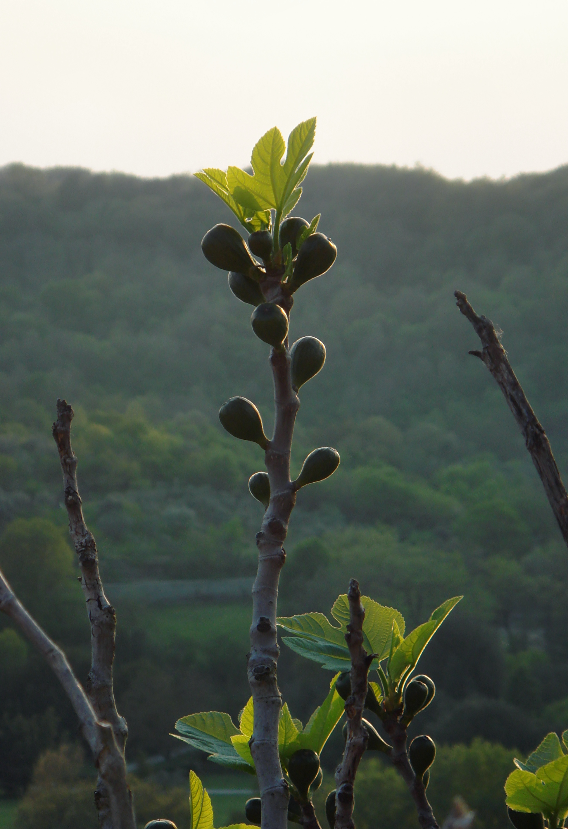 Ficus carica, Bomarzo, Italy, young leaves and fruits against the light of the evening sunset